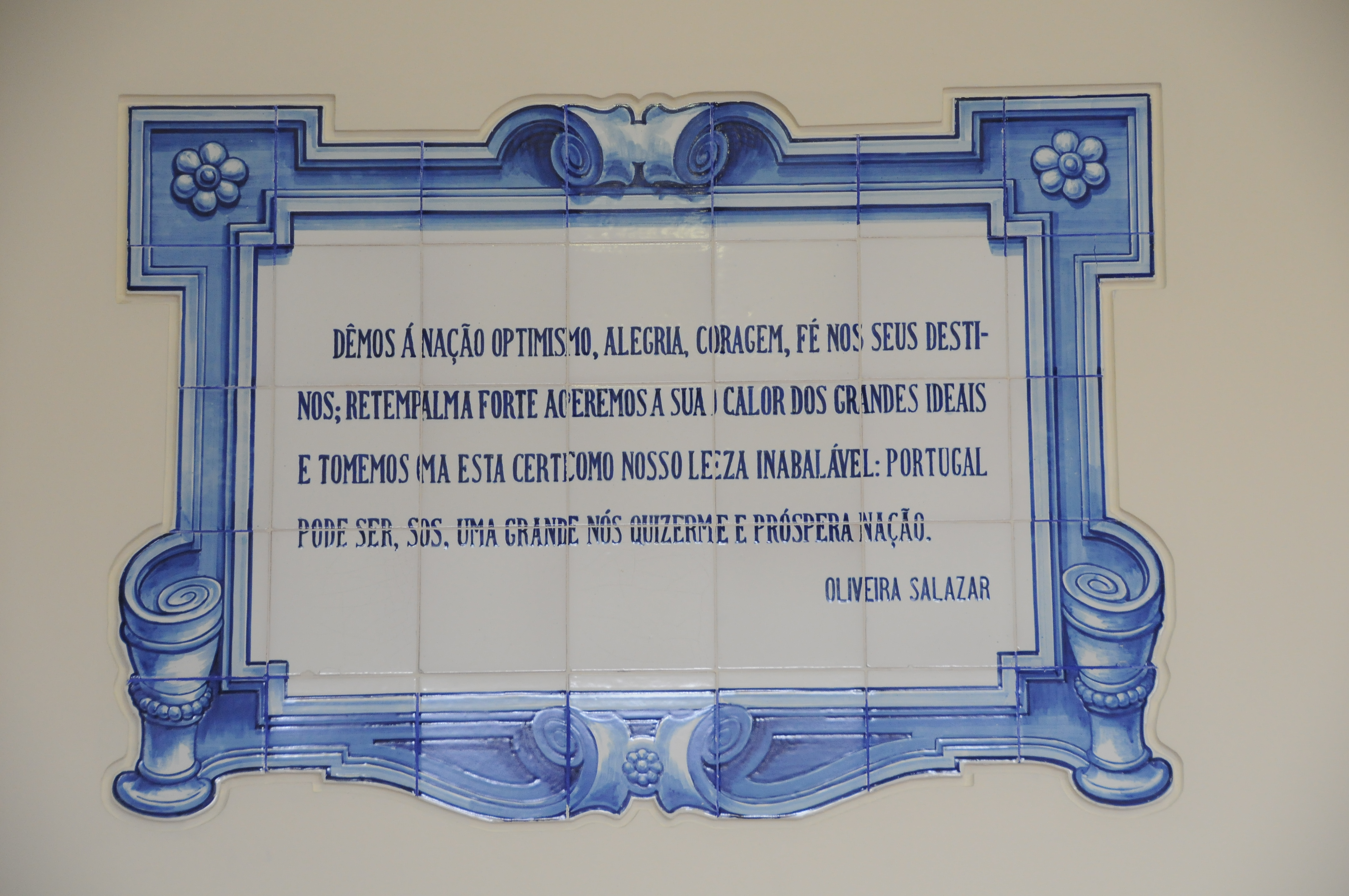 Azulejos with a saying from Oliveira Salazar, in Centro Cultural Rodrigues de Faria, Forjães, Esposende, Portugal.